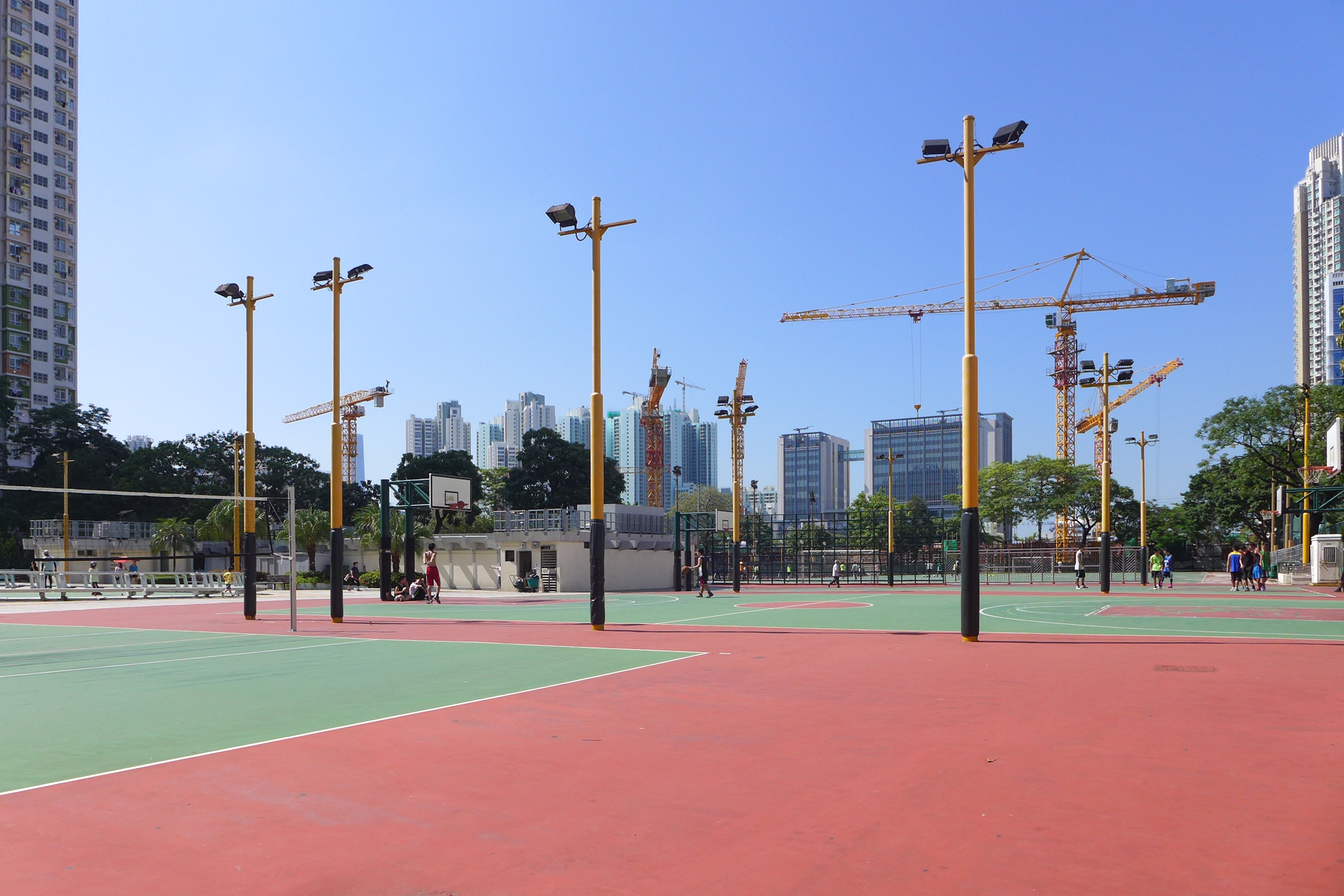 Cheung Sha Wan Playground